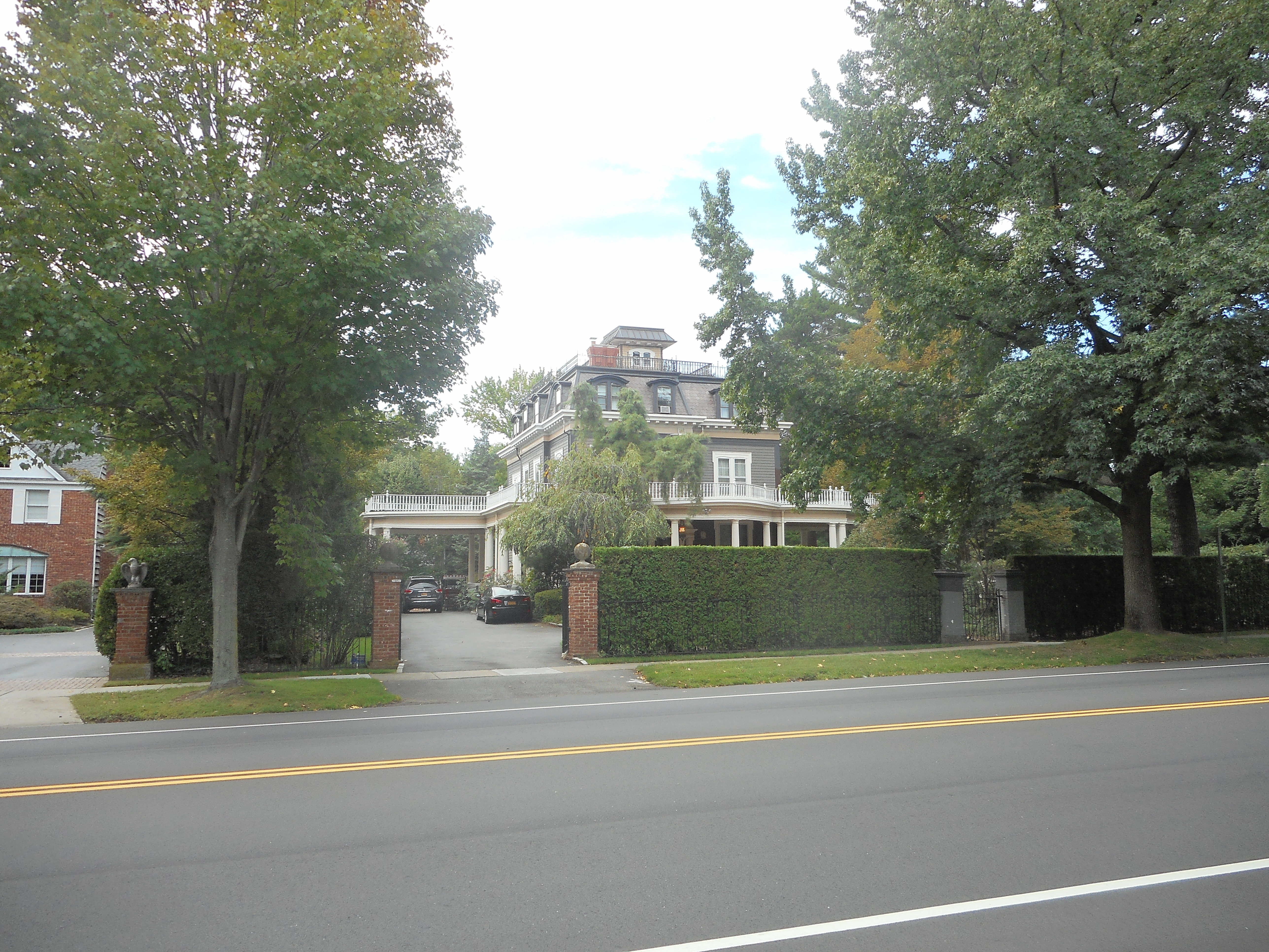 The house at 40 Hilton Avenue, the fourth of ten of the original "Apostle Houses" created by A.T. Stewart in Garden City, New York, and a National Register of Historic Places contributing property.